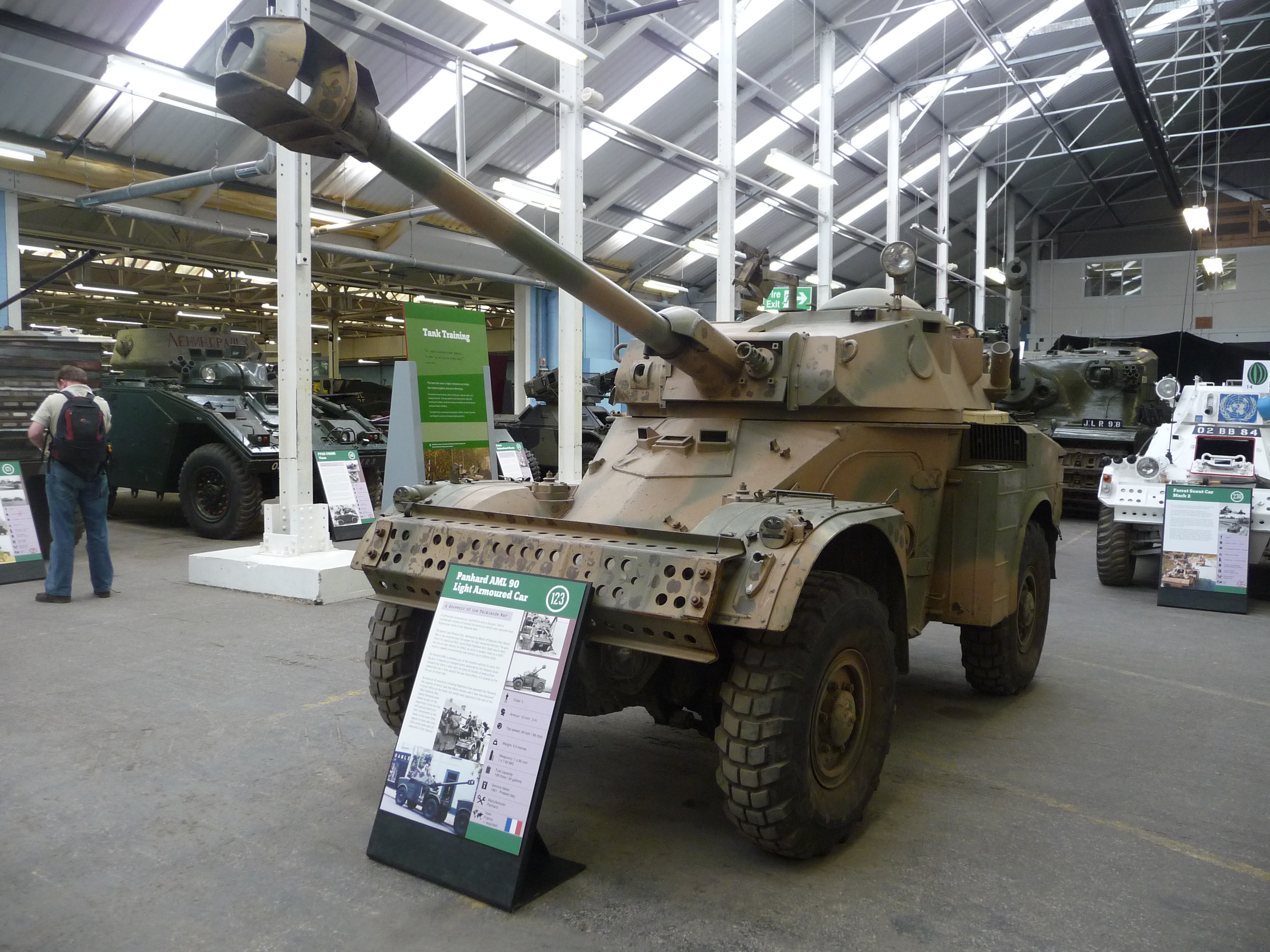 Panhard AML H90